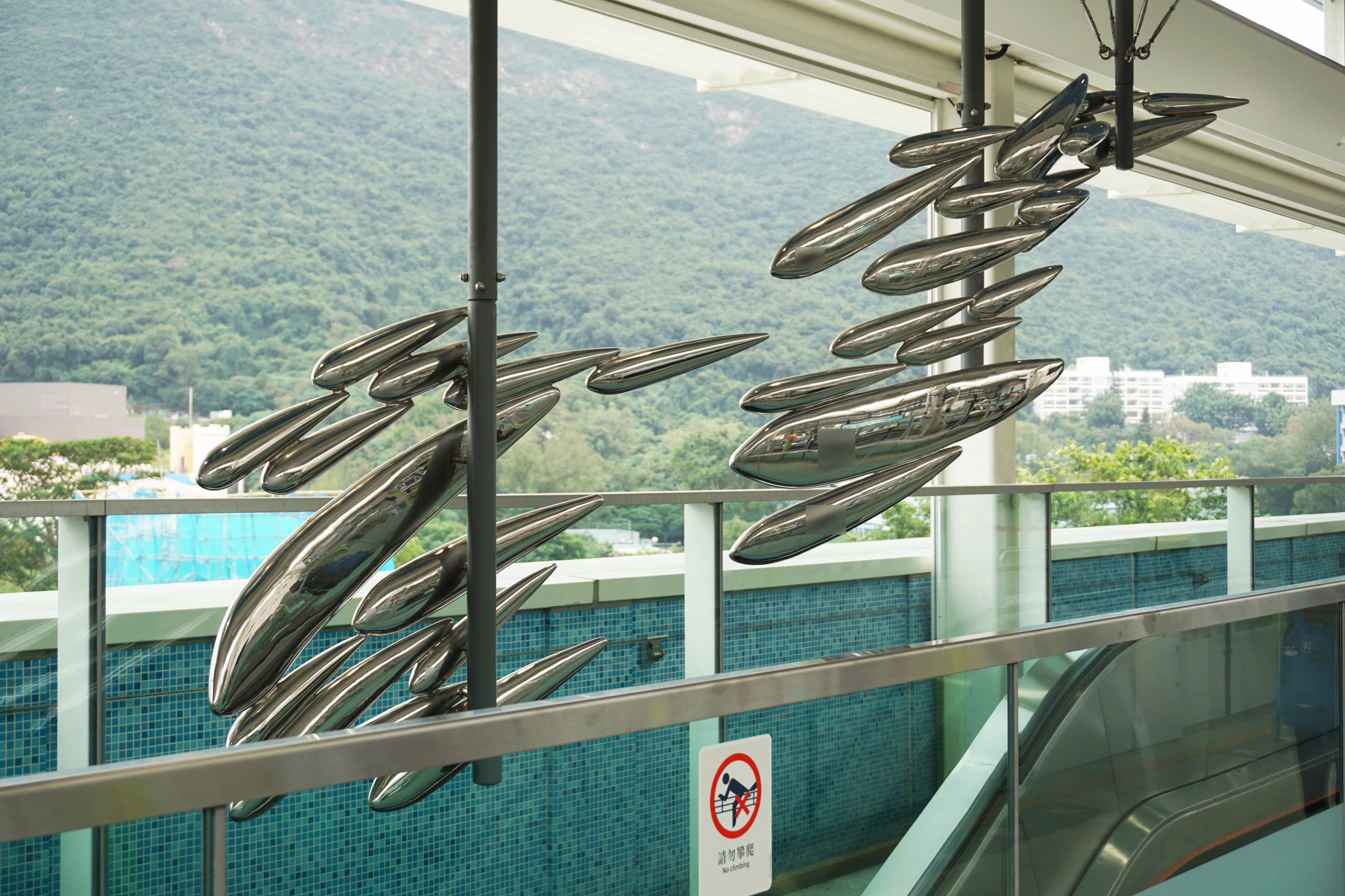 Ocean Park Station in Wong Chuk Hang, Hong Kong.